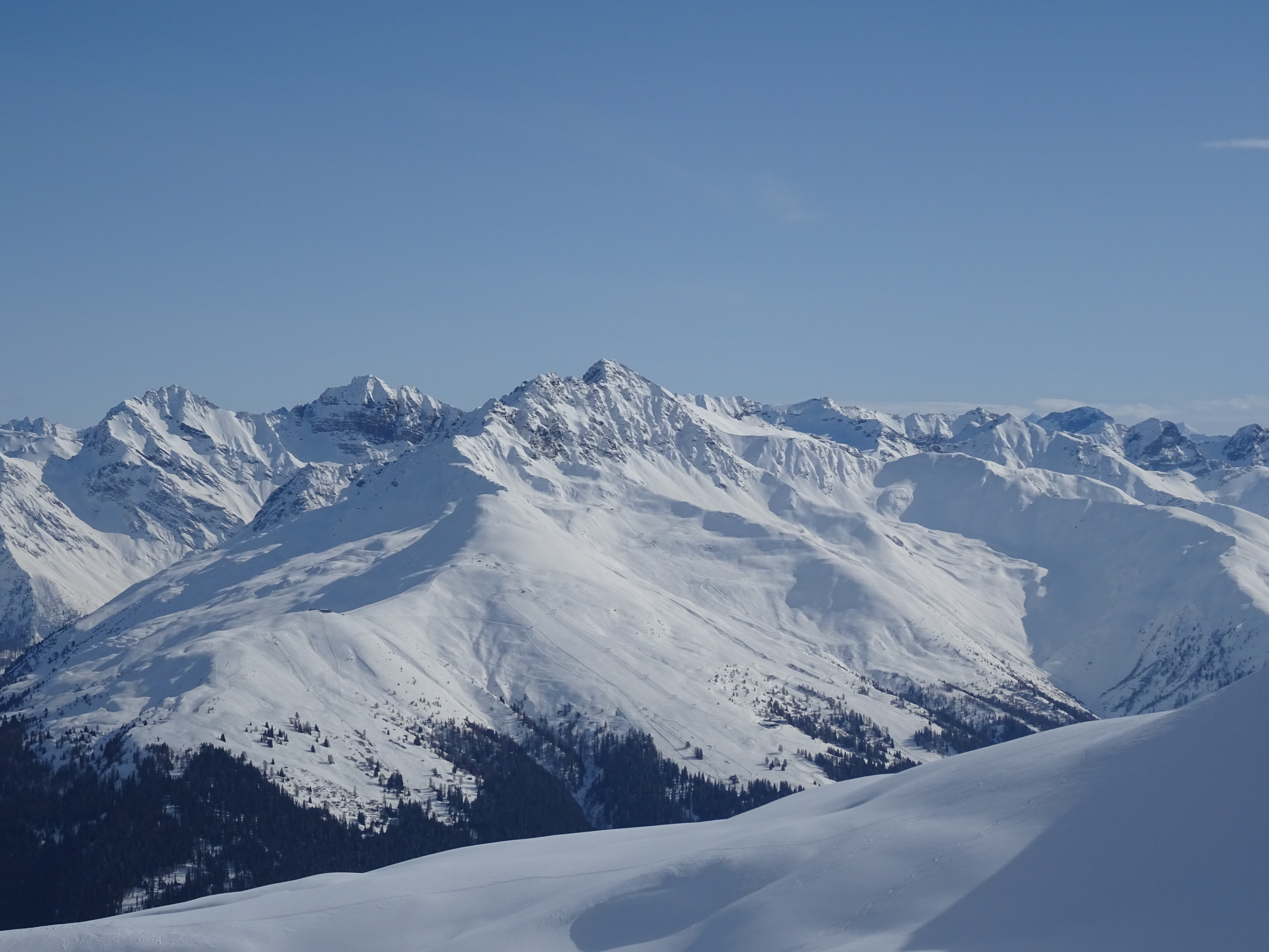 Rinerhorn, Leidbachhorn and Älplihorn as seen from Wannengrat (Davos, Grison, Switzerland)